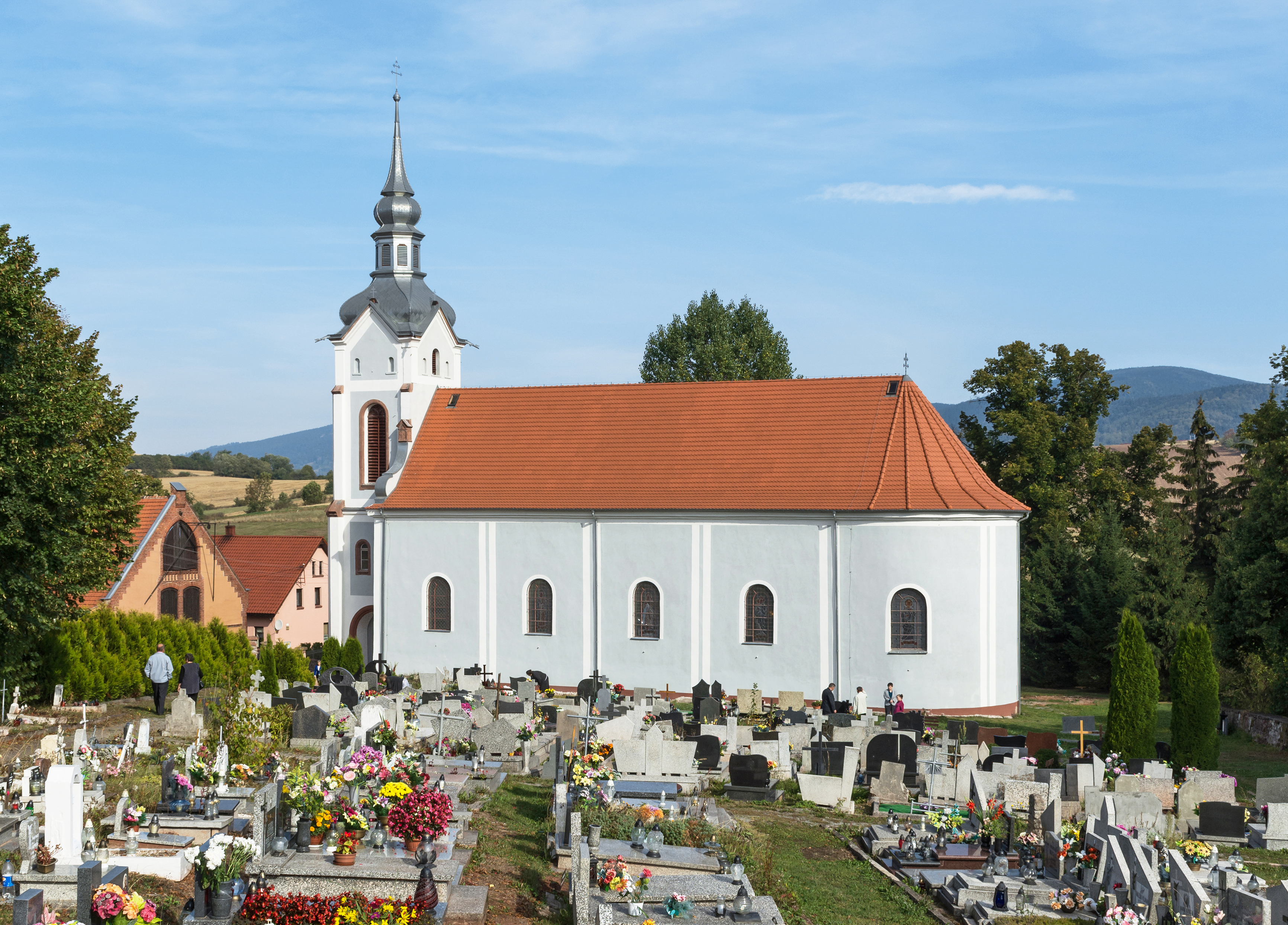 Saint James the Greater church in Wolibórz